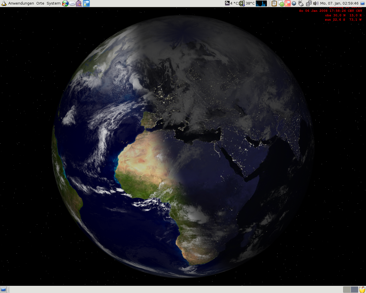 Xplanet background image for the desktop.